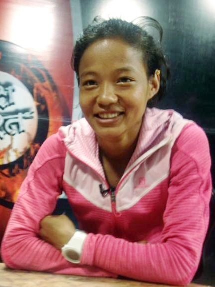 Mira Rai, Nepal नेपाली: मिरा राई, नेपाल